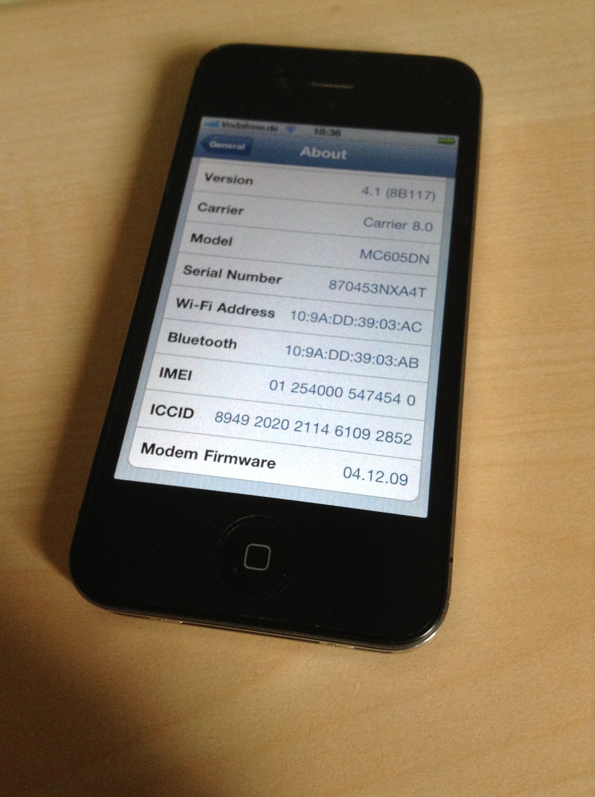 iPhone 4 with iOS 4.1 (8B117) with BB 04.12.09